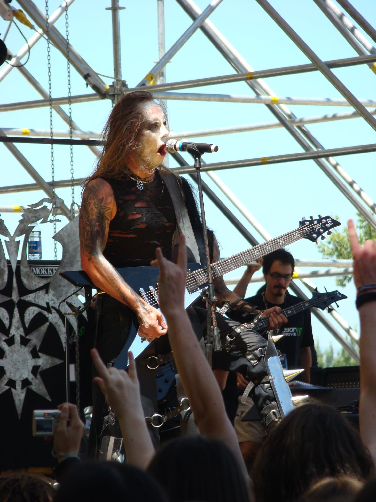 Behemoth live